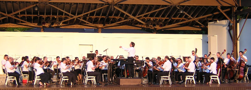 Picture of Pittsburgh Symphony Orchestra performing at Hartwood Acres in Pittsburgh, Pennsylvania, on July 8, 2007.